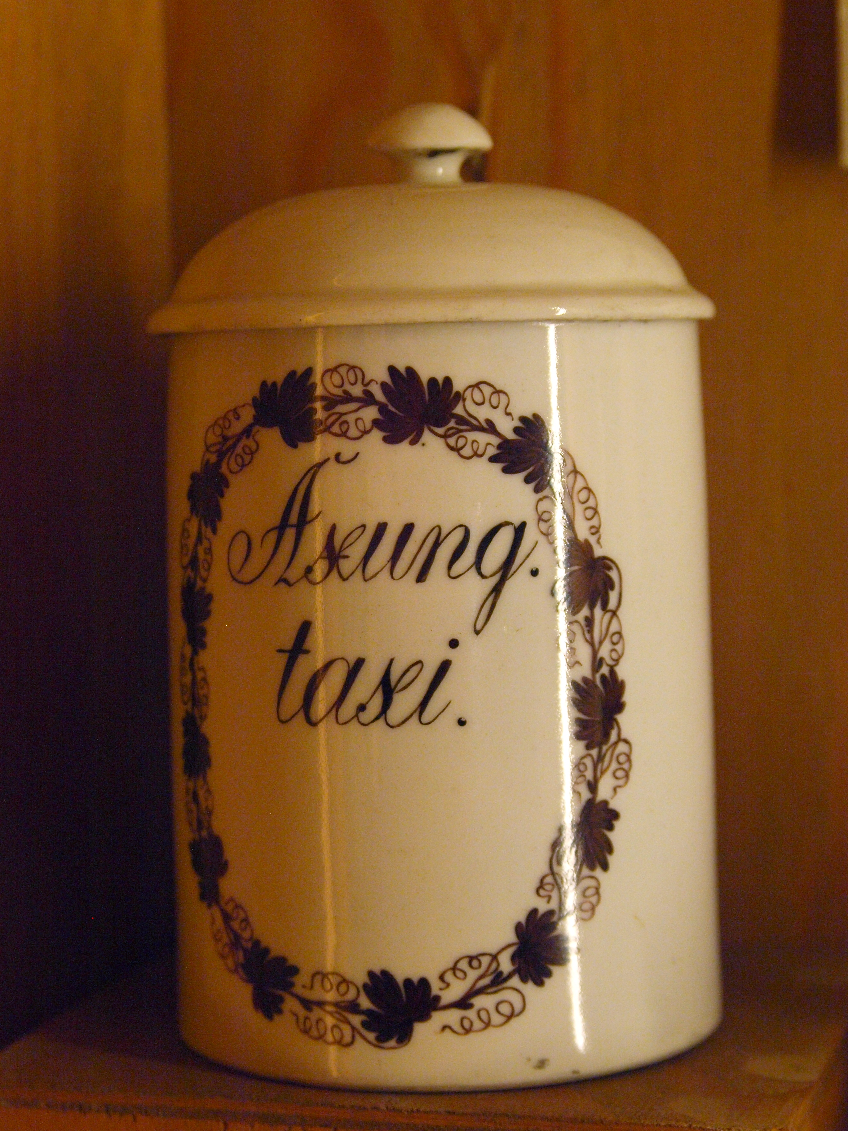 Apothecary vessel with inscription Axung taxi (badgers fat) dating to 19th century at Deutsches Apothekenmuseum Heidelberg, Germany